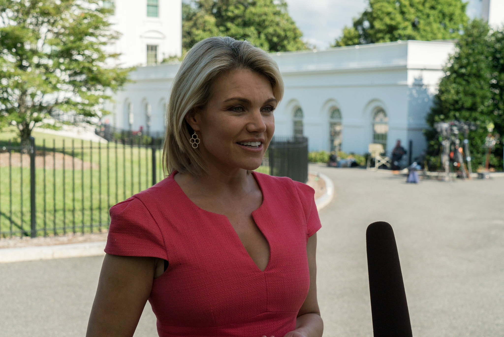 State Department Spokesperson Heather Nauert | 7/25/17 (Official White House Photo by Evan Walker)